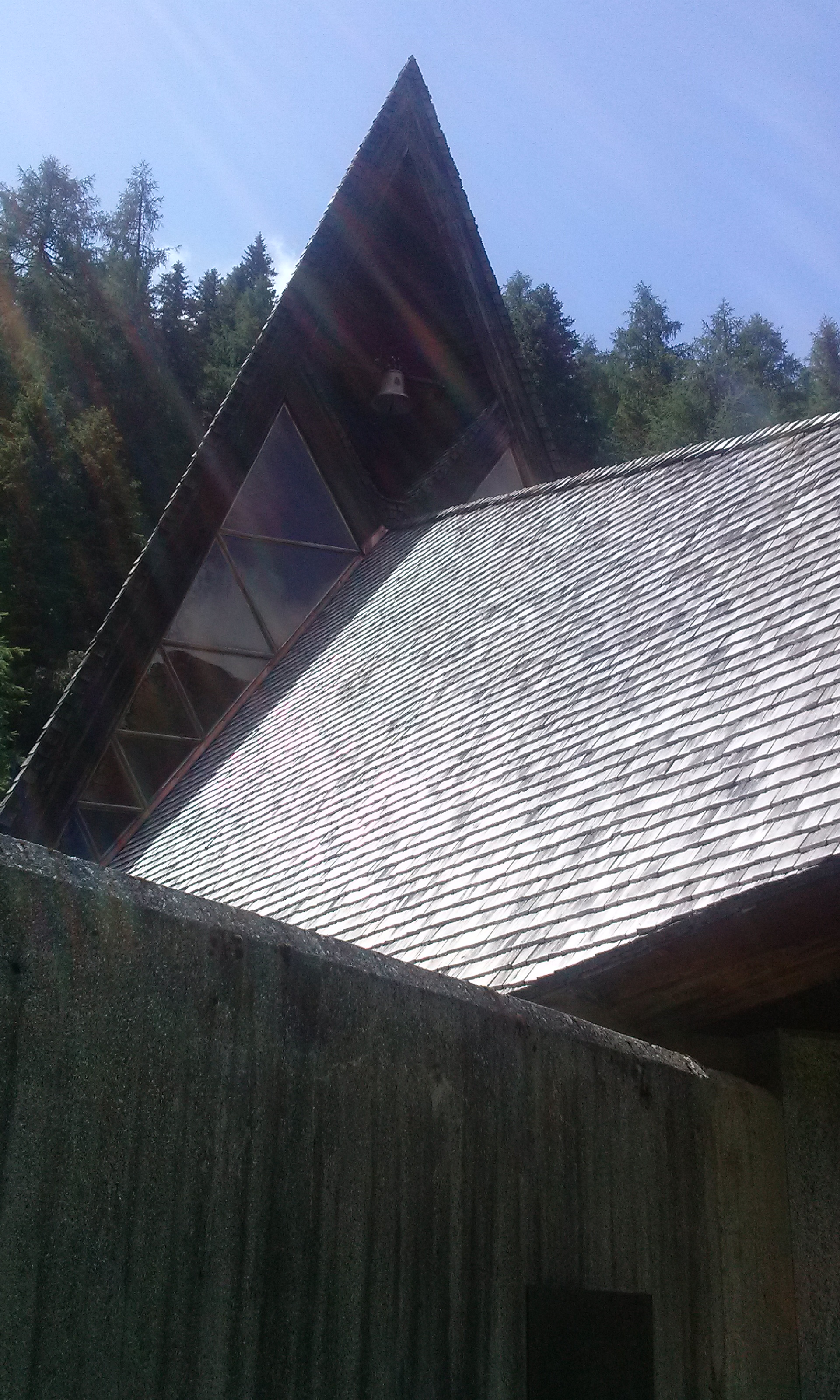 Kapelle in der Axamer Lizum; Geläut This media shows the remarkable cultural object in the Austrian state of Tyrol listed by the Tyrolean Art Cadastre with the ID 28775. (More images on Commons)